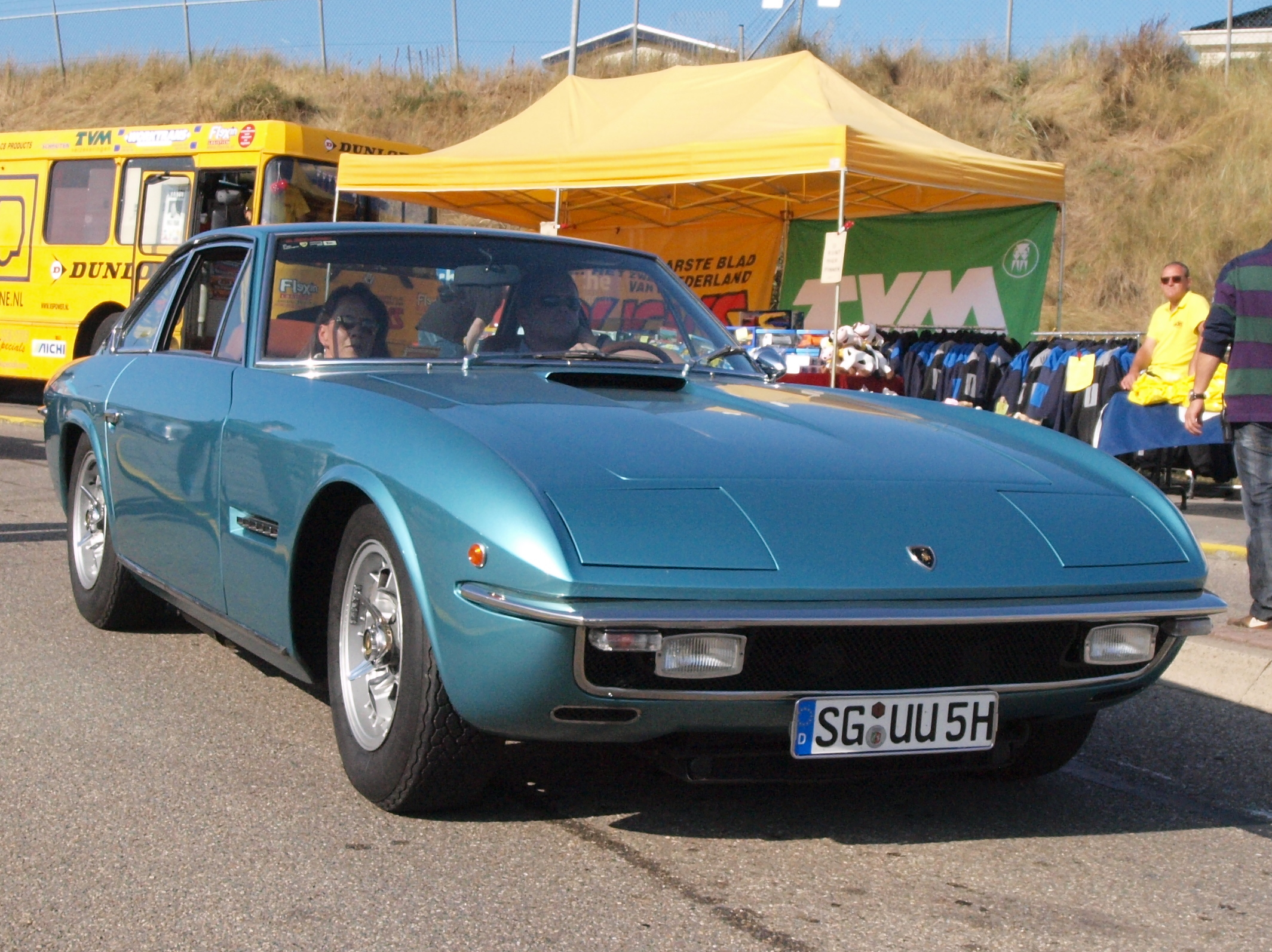 Photographed at the Nationaal Oldtimer Festival Zandvoort 2009, The Netherlands. OLYMPUS DIGITAL CAMERA